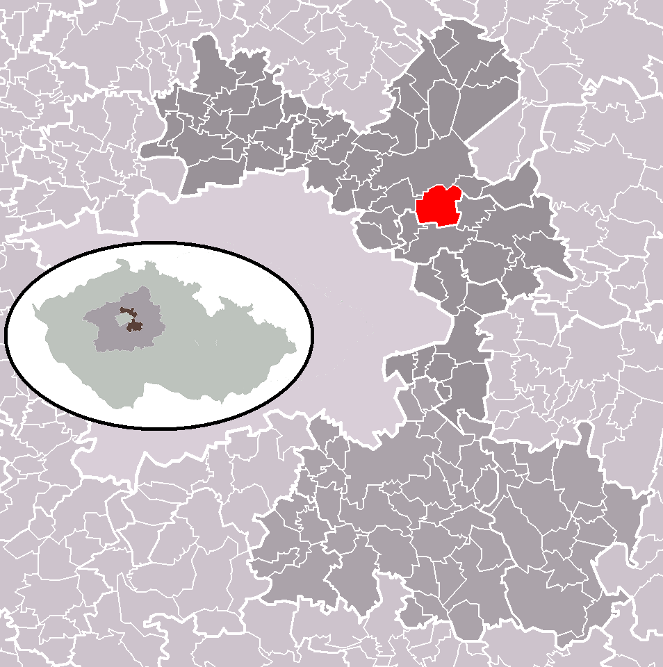 Location of Zápy market town within Prague-East District and administrative area of Brandýs nad Labem-Stará Boleslav as a Municipality with Extended Competence.